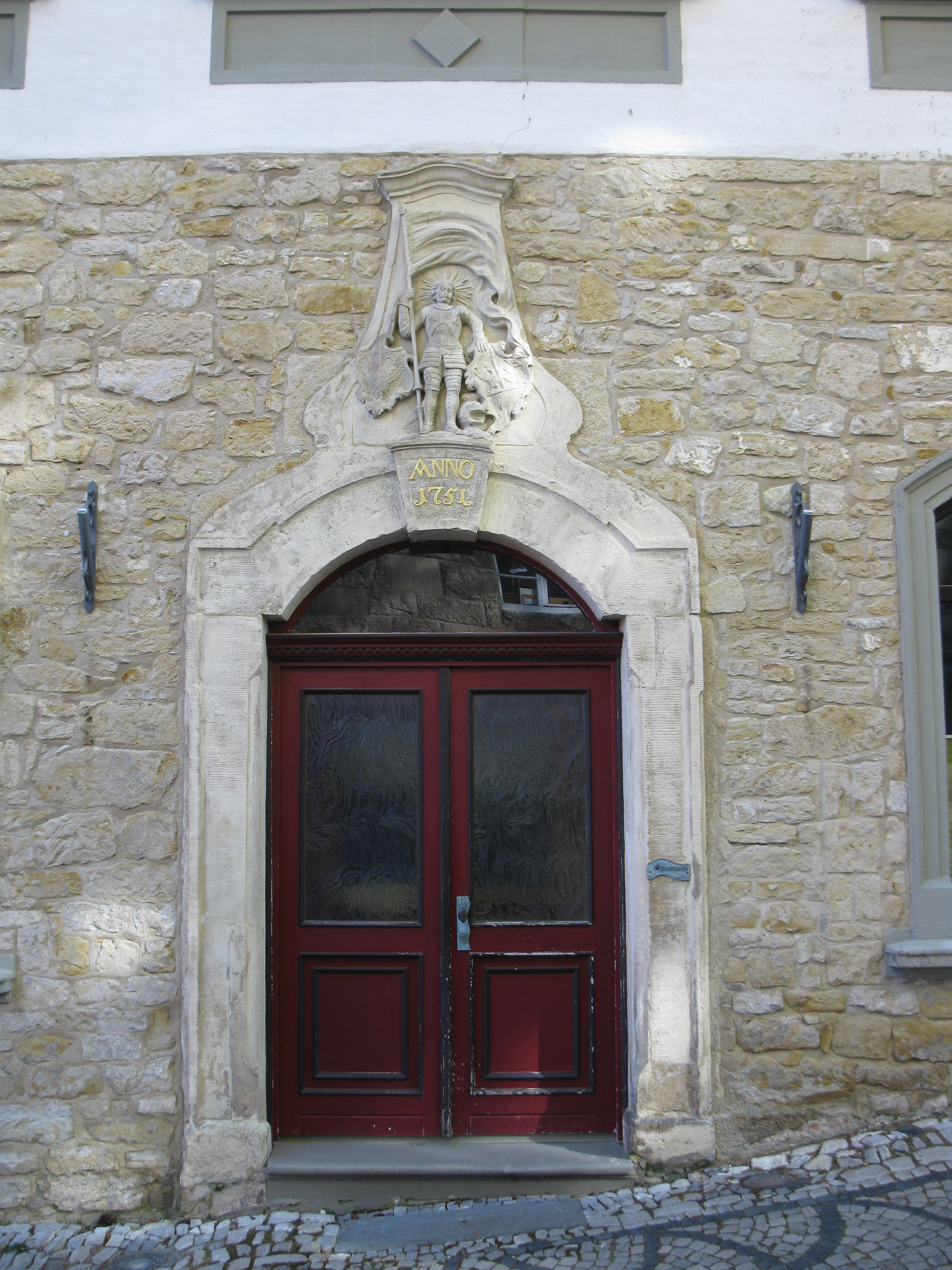 Old Brewery (1751), entrance with relief of Saint Maurice